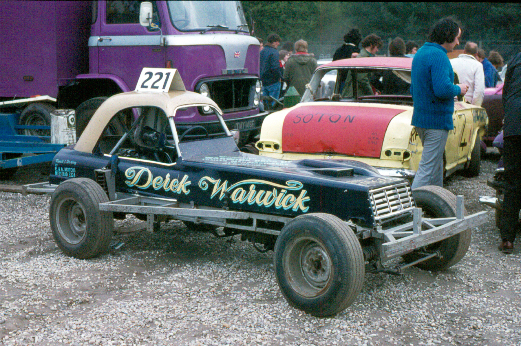 Dereck Warwick's Superstox car at Matchams Park, Hampshire, in his championship winning year, 1973.